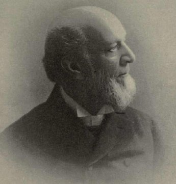 John Heyl Vincent Title: Leaders of men; types and principles of success as illustrated in the lives of prominent Canadian and American men of the present day. Canadian department edited by R. Campbell Tibb. American department edited by Henry W. Ruoff Creator: Tibb, R. Campbell Creator: Ruoff, Henry Woldmar, 1867-1935 Publisher: Springfield, Mass. King-Richardson Date: c1904 Possible Copyright Status: NOT_IN_COPYRIGHT